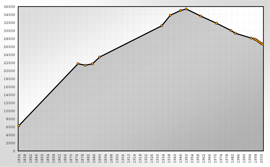 This image shows the population statistics of Glauchau (Germany).